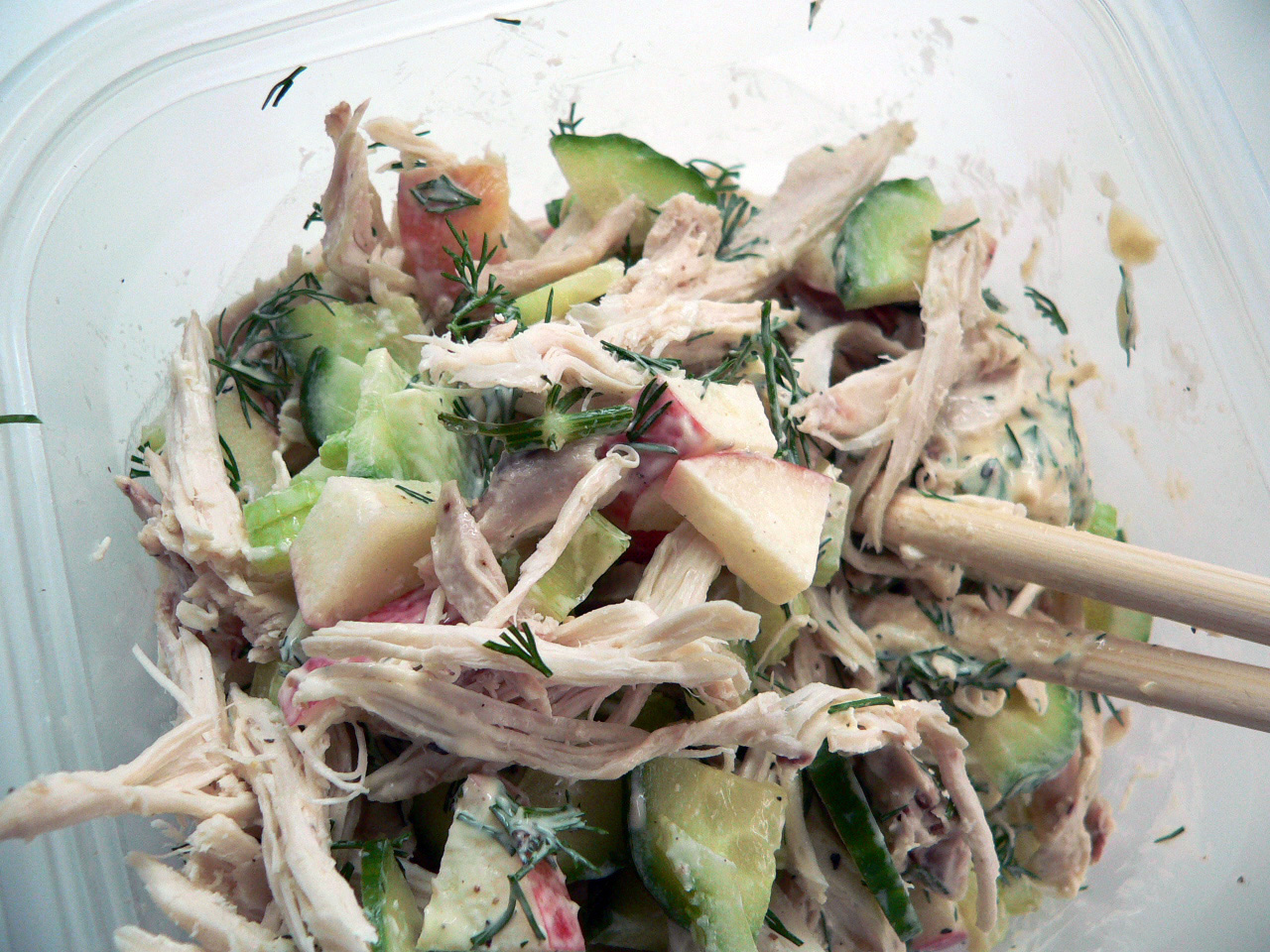 A chicken salad made from chicken used for soup stock, celery, cucumber, apples, fresh dill, mayonnaise, salt, and pepper.